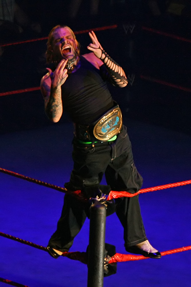 Jeff Hardy as Intercontinental Champion during his ring entrance. Taken during the WWE Raw - Survivor Series Tour, at Rod Laver Arena, Melbourne Park, Melbourne, Australia. Hardy wrestled in the main event of the night, a tag-team bout involving Umaga & Randy Orton (reigning WWE Champion) vs Jeff Hardy & Triple H; the match was won by Triple H pinning Orton following a pedigree.